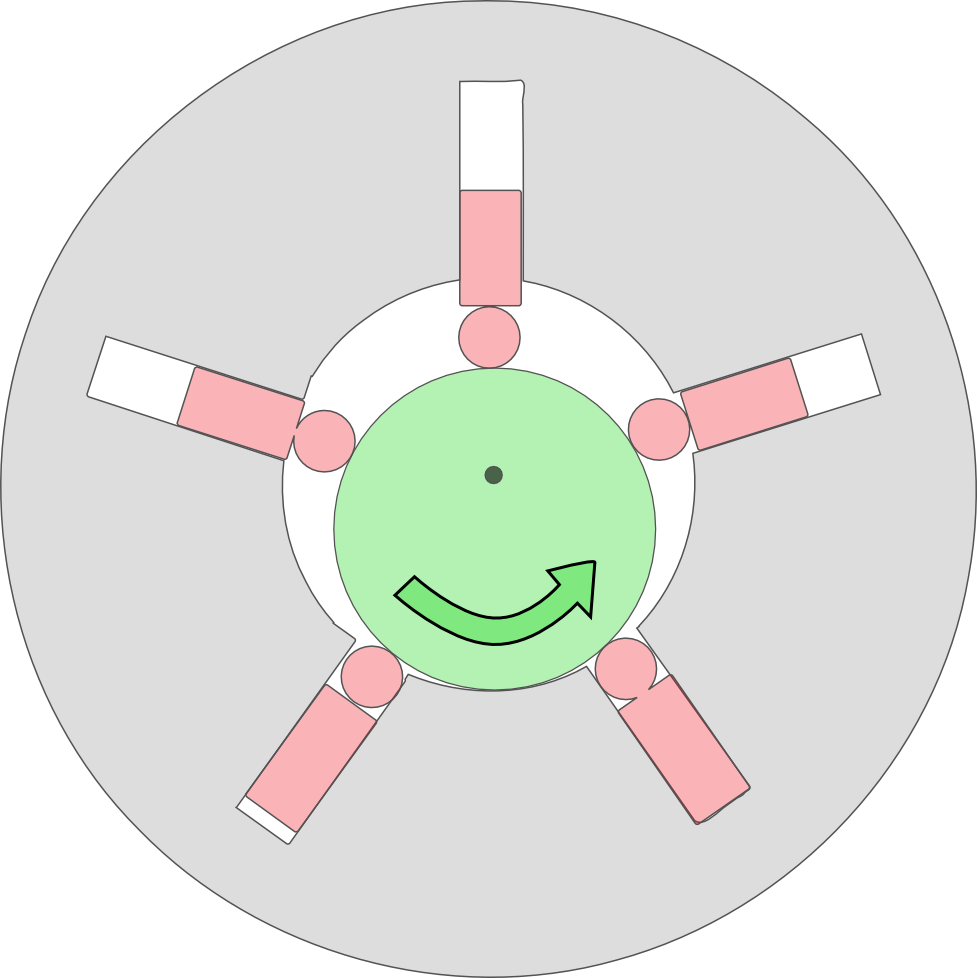 Diagram of a radial piston pump.